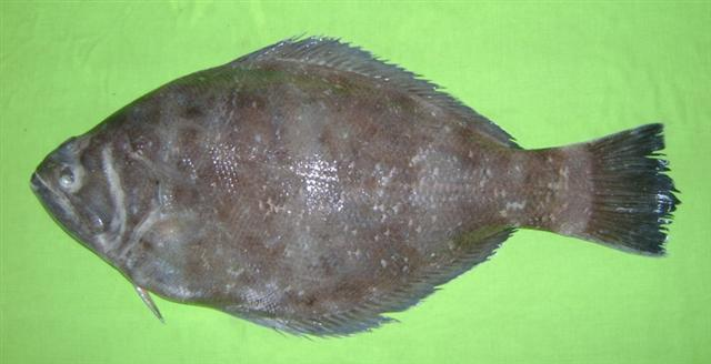 Psettodes erumei by Hamid Badar Osmany ,Pakistan, Karachi, 24-6-2001, 27cm